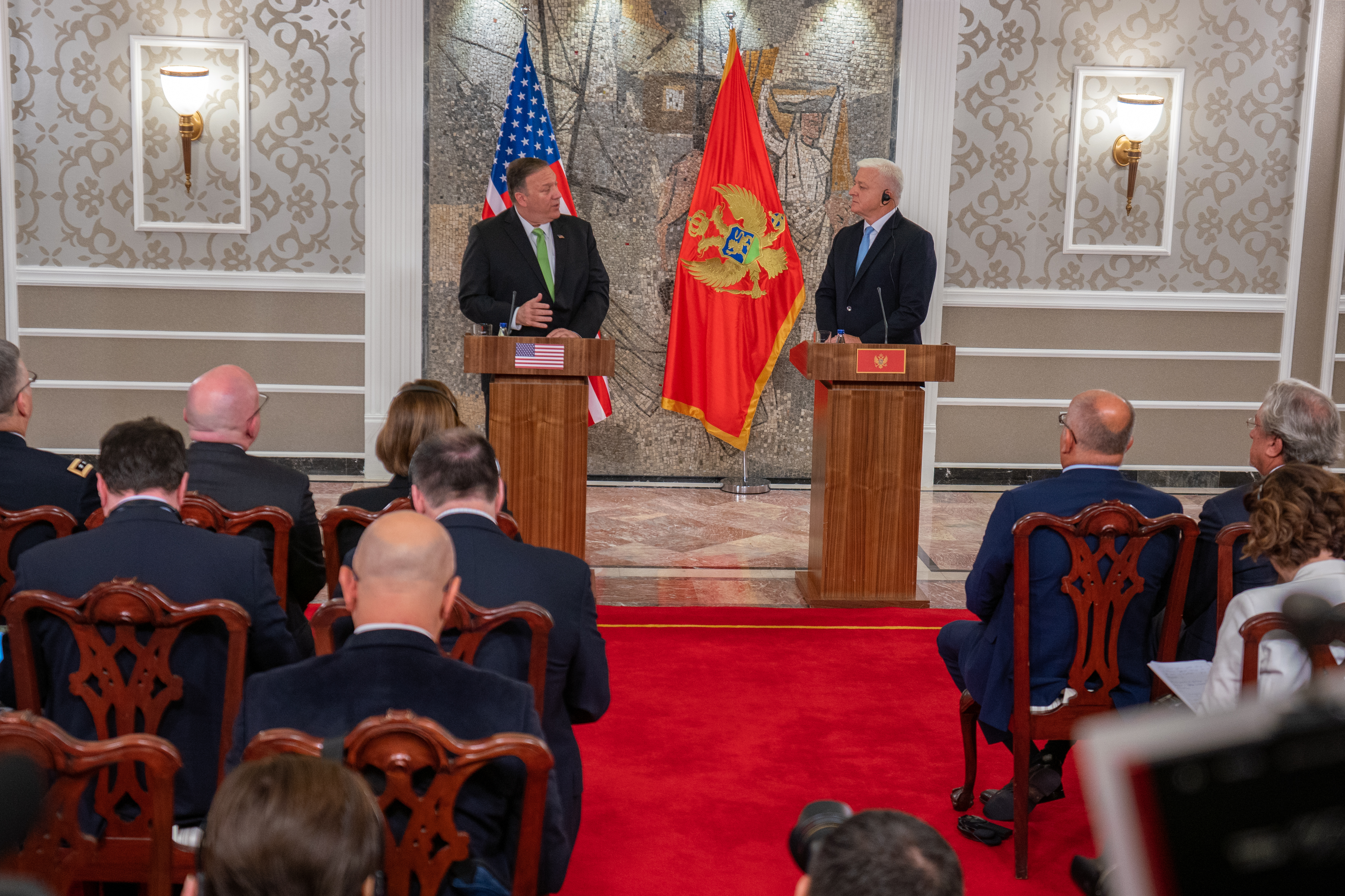 U.S. Secretary of State Michael R. Pompeo participates in a press availability with Montenegrin Prime Minister Dusko Markovic in Montenegro, on October 4, 2019. [State Department photo by Ron Przysucha/ Public Domain]